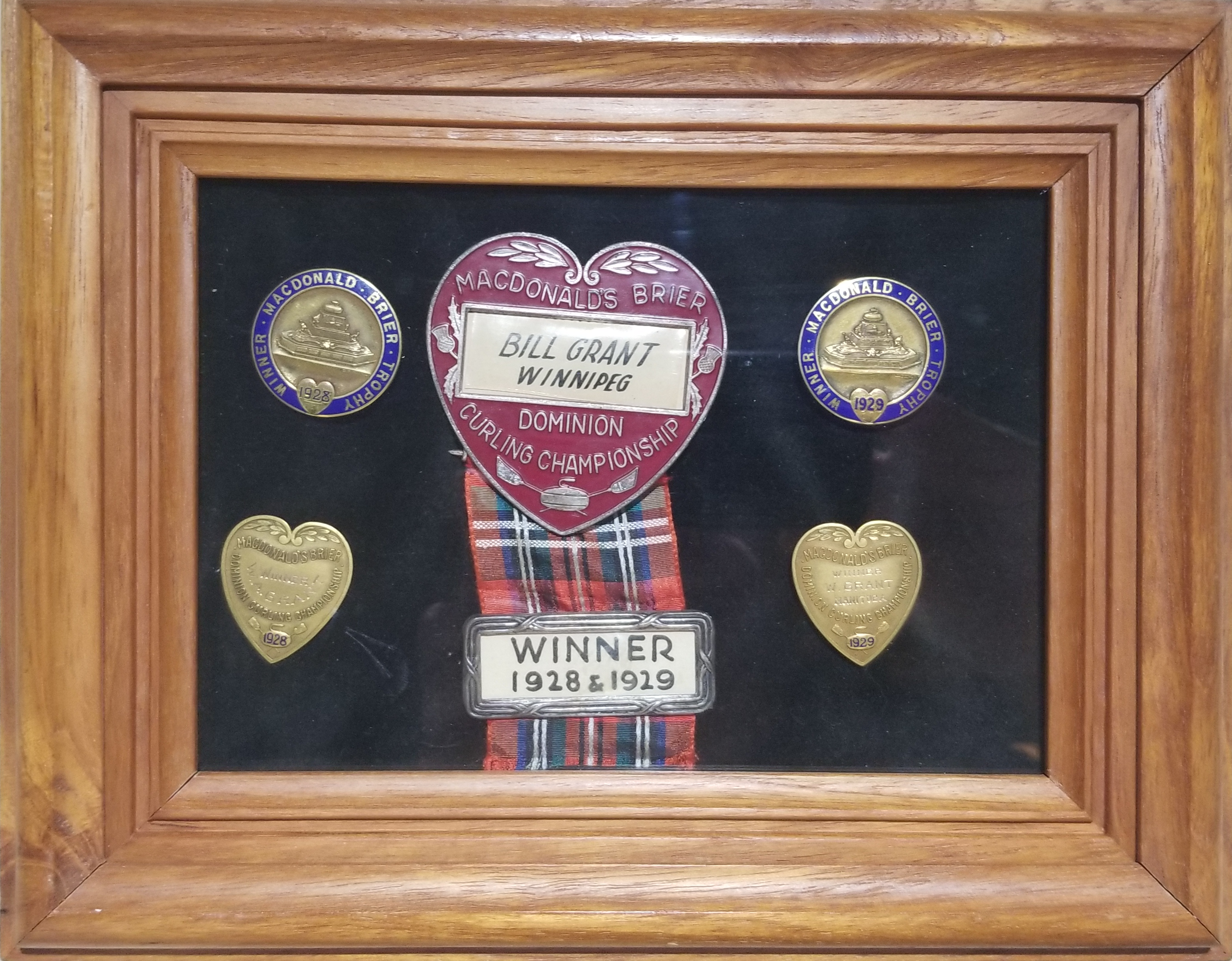 Mcdonalds Brier Hearts